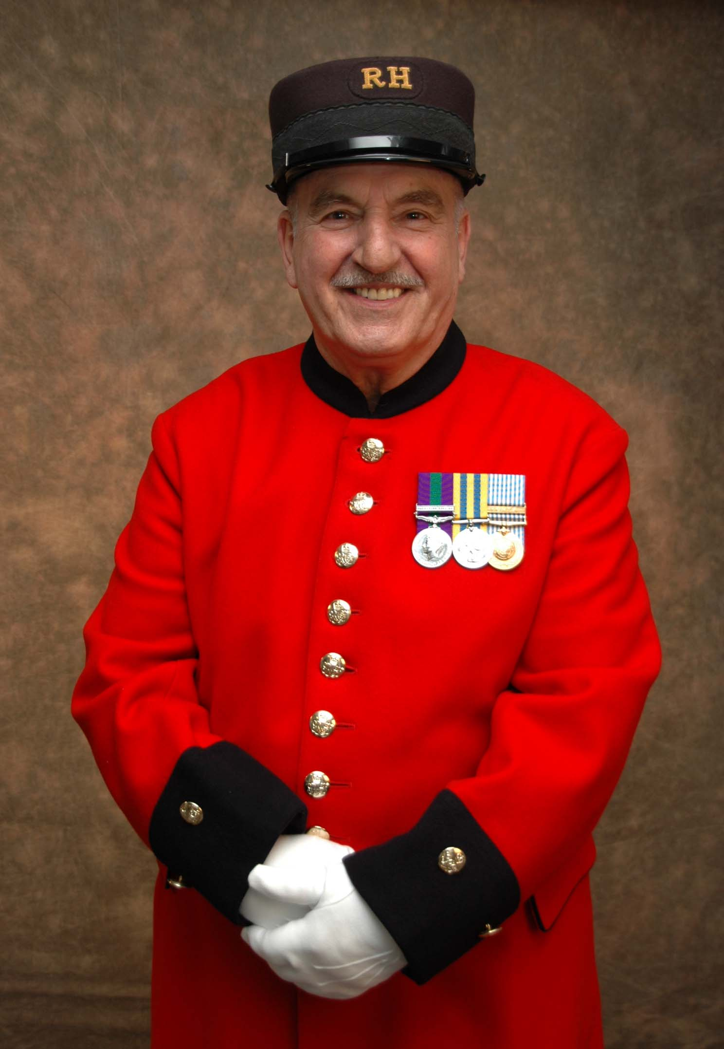 Portrait of a Chelsea Pensioner.